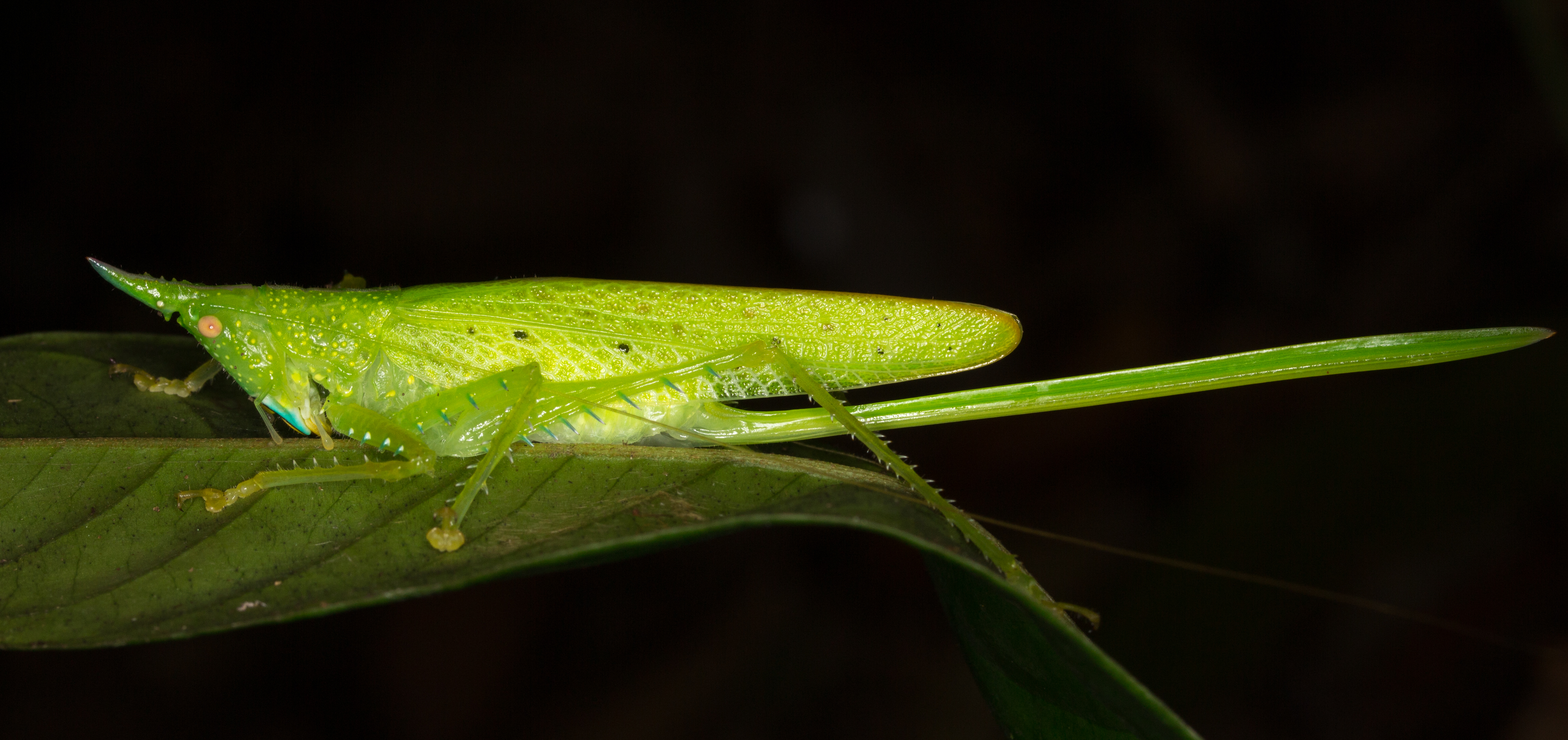 Blue Horn Unicorn Katidid. This species differs from all known species of Copiphora. Bosque Protector Colonso, Tena, Napo Province of Ecuador. (Locality retrieved from the Flickr source by Cayambe, June 3 2015).